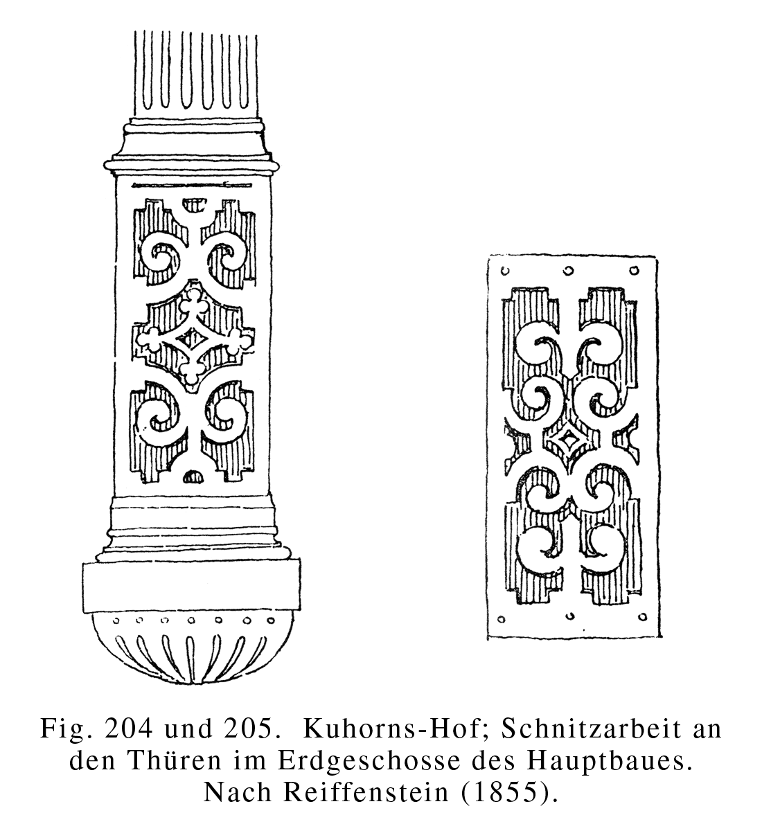 Frankfurt on the Main: Kuehhornshof, carvings in the doors of the principal building's ground floor